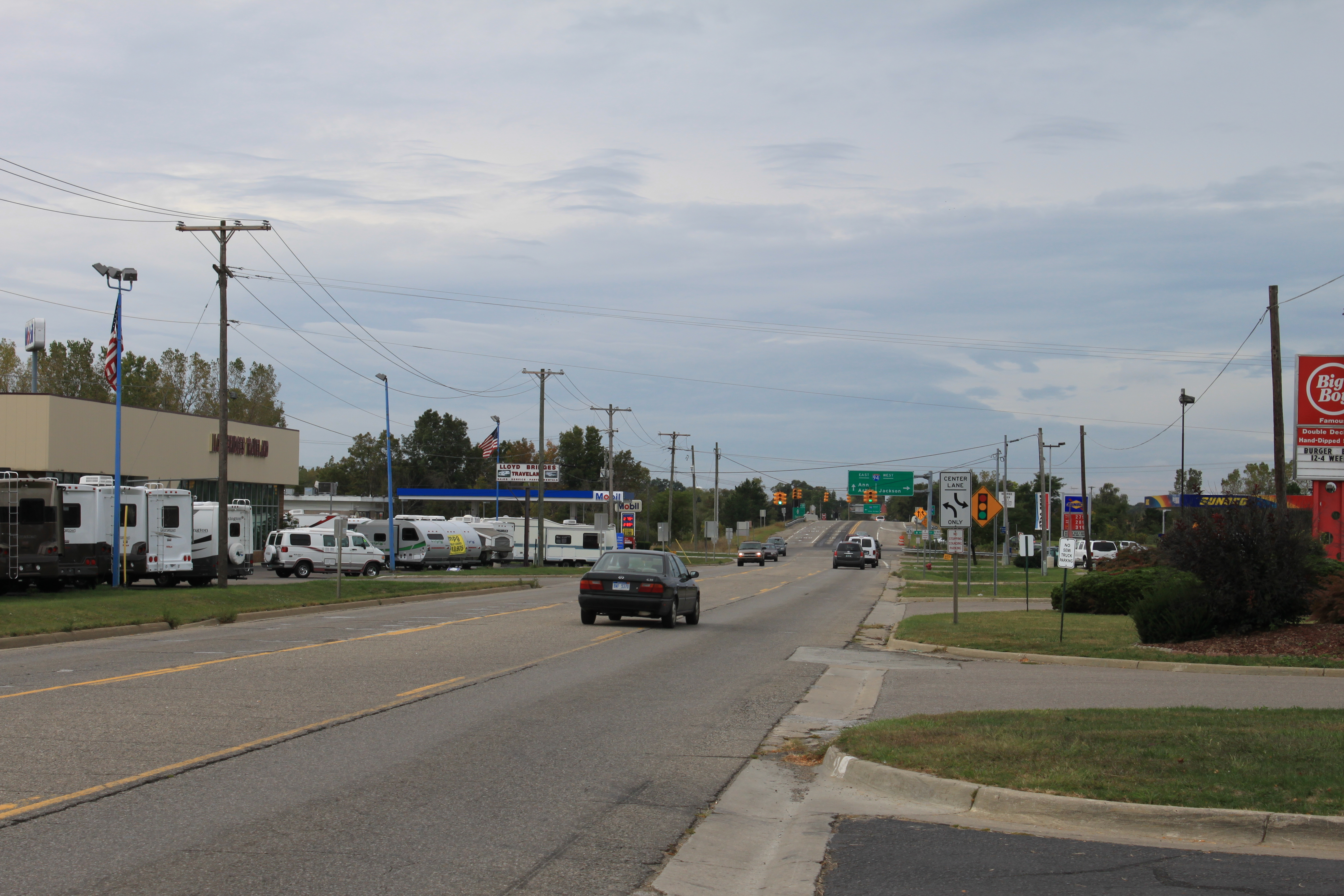 Stretch of M-52 Highway north of intersection with Interstate 94, Chelsea, Michigan.